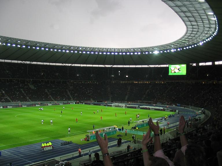 Final of the Women's German Cup 2007 in the Olympiastadion Berlin between the 1. FFC Frankfurt and the FCR 2001 Duisburg 5:2 P.